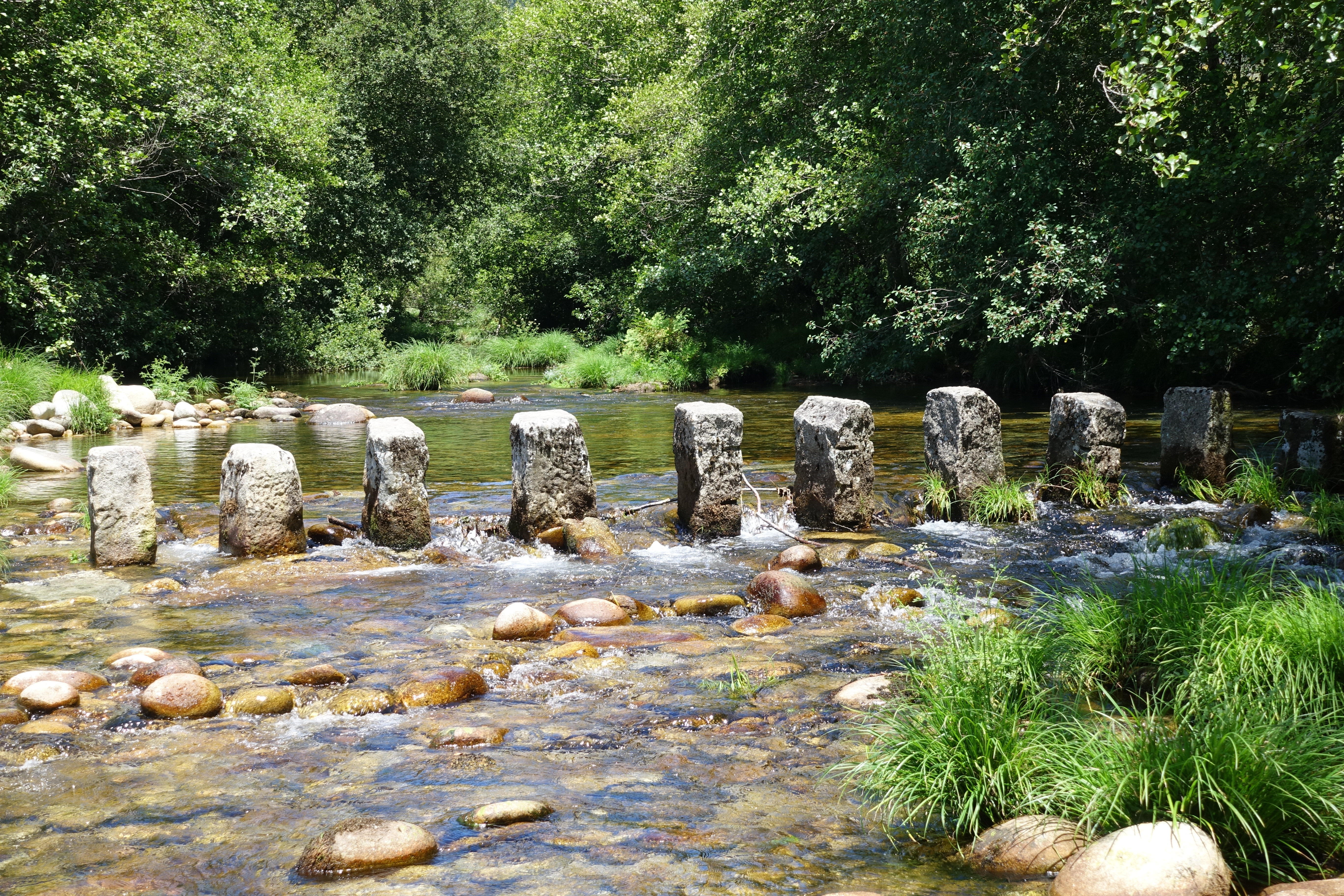 Step-stone bridge in Rio Vez Portugal